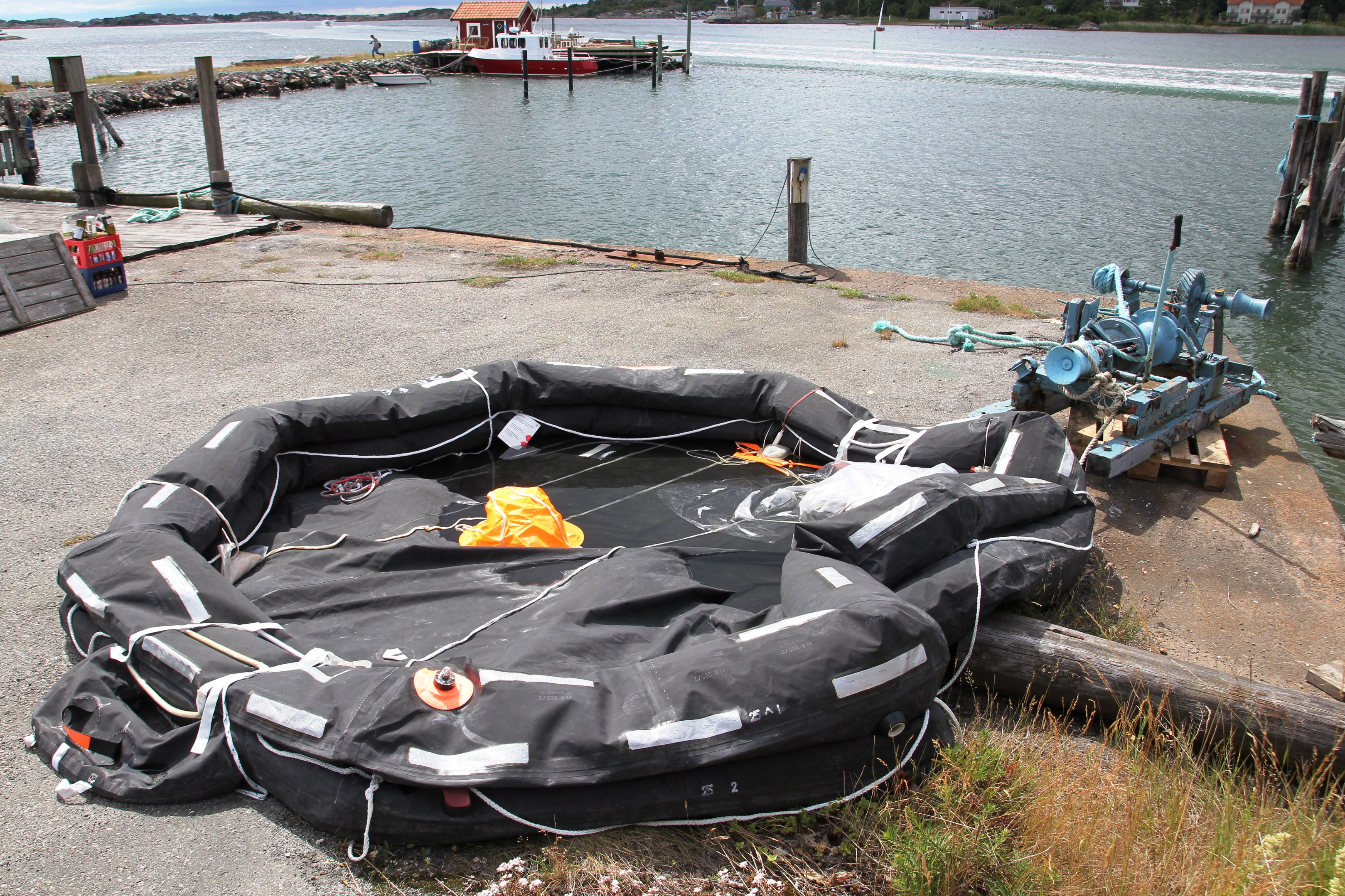 Donsö fire station